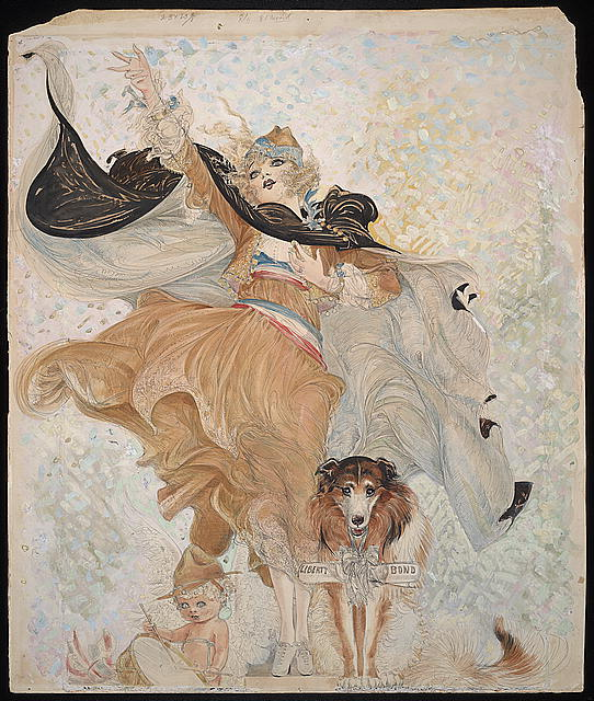 Golden Eyes with Uncle Sam (dog), illustration by Nell Brinkley (1886-1944)